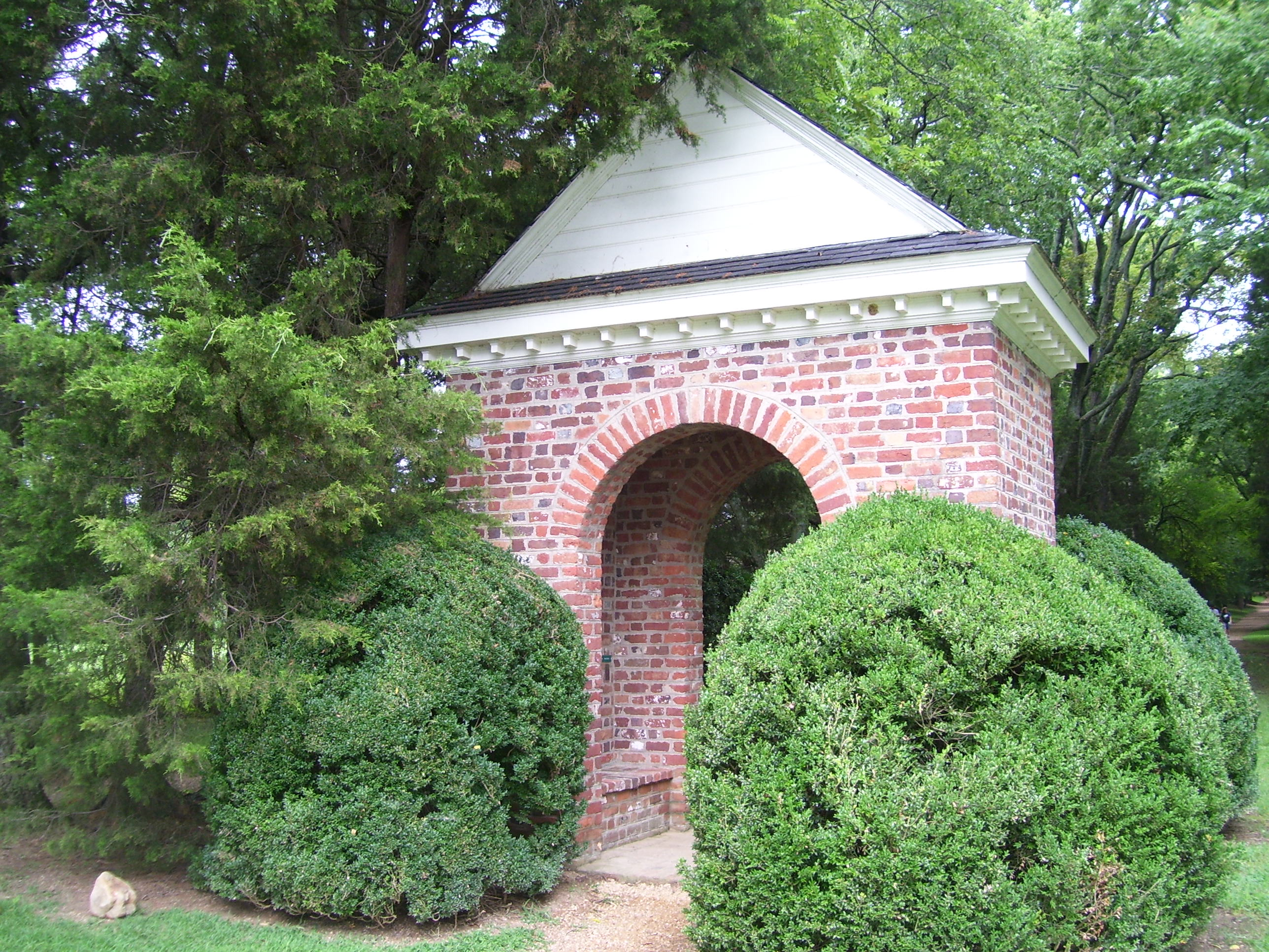 Berkeley Plantation, Shrine marking spot of 1st Thanksgiving in America, in 1619